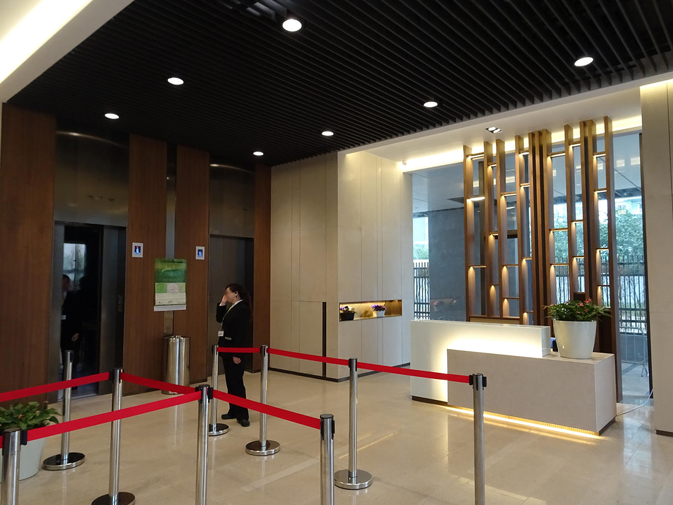 De Novo in Kai Tak, Hong Kong.